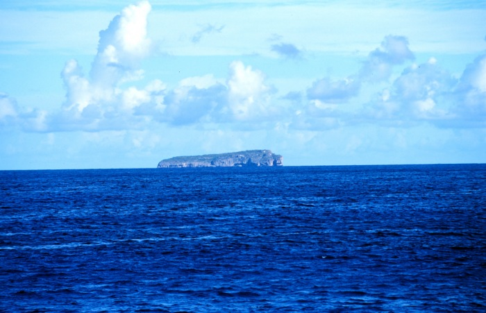 Monito Island (Puerto Rico) as seen from offshore